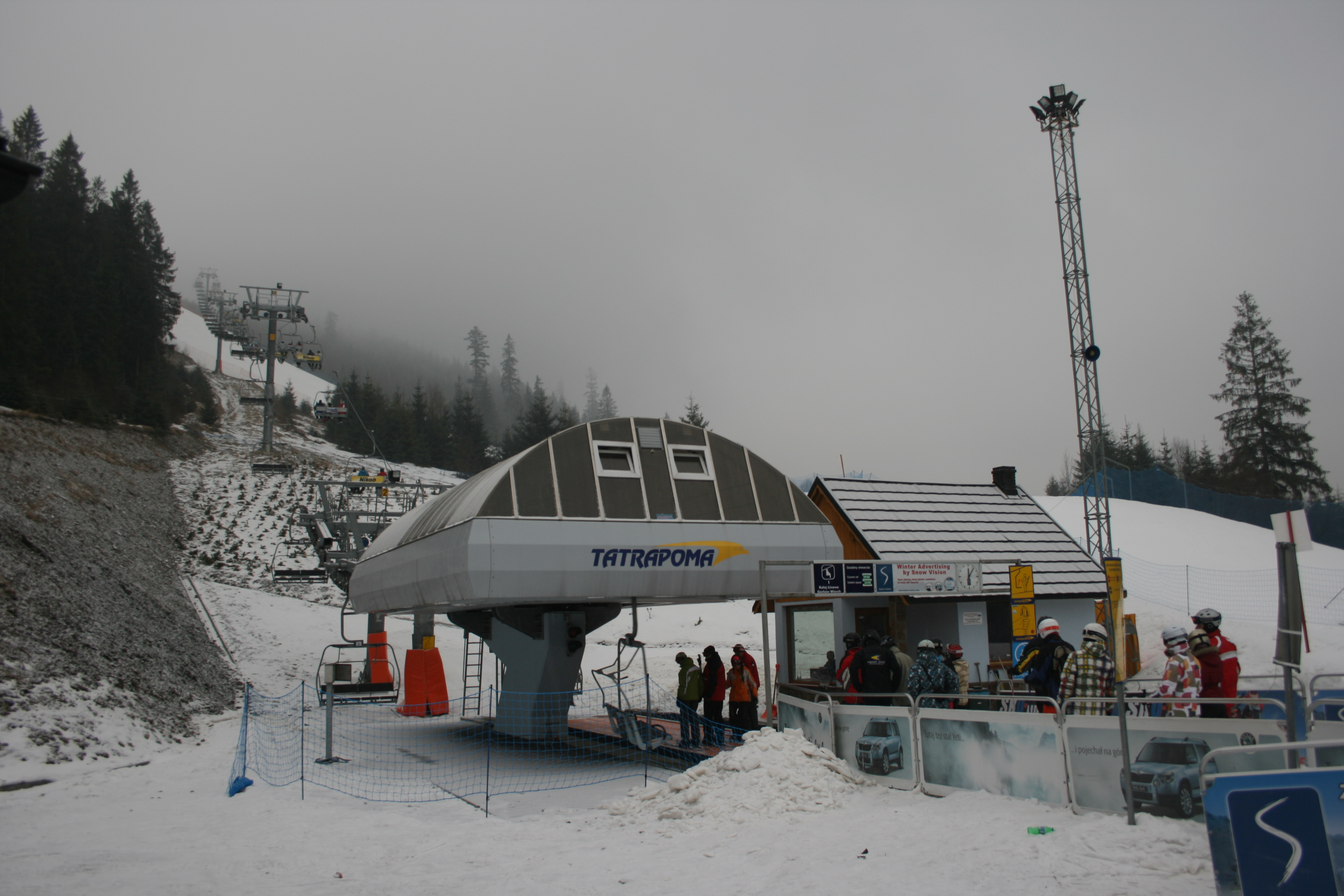 Jurgów ski area lower chairlift terminal